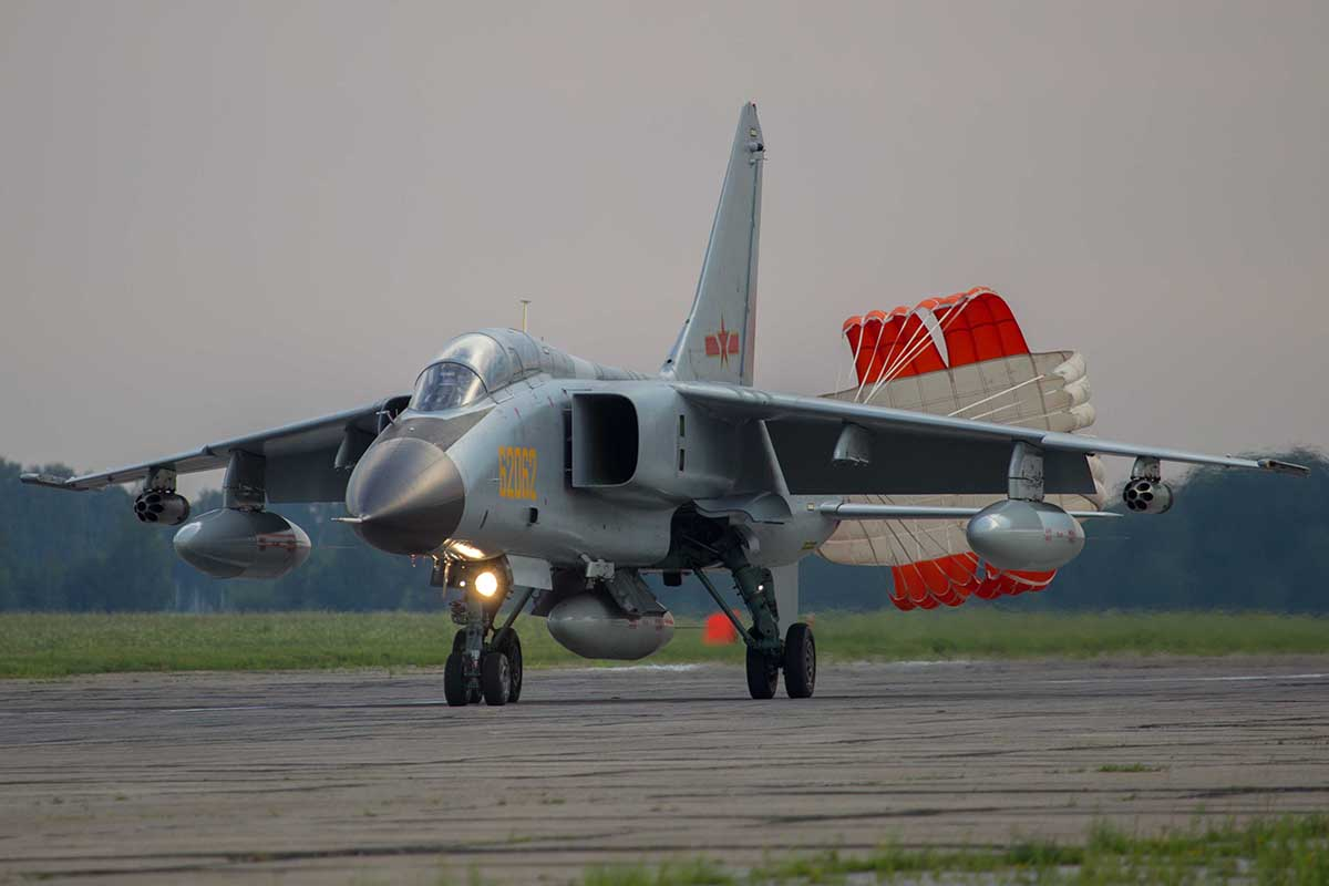 Xian JH-7A.